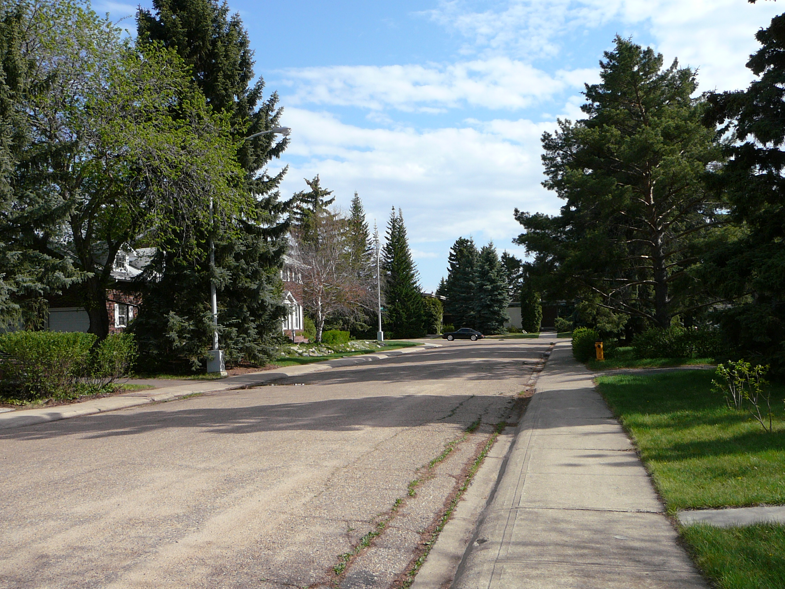 Residential street in Edmonton neighbourhood of Grandview Heights